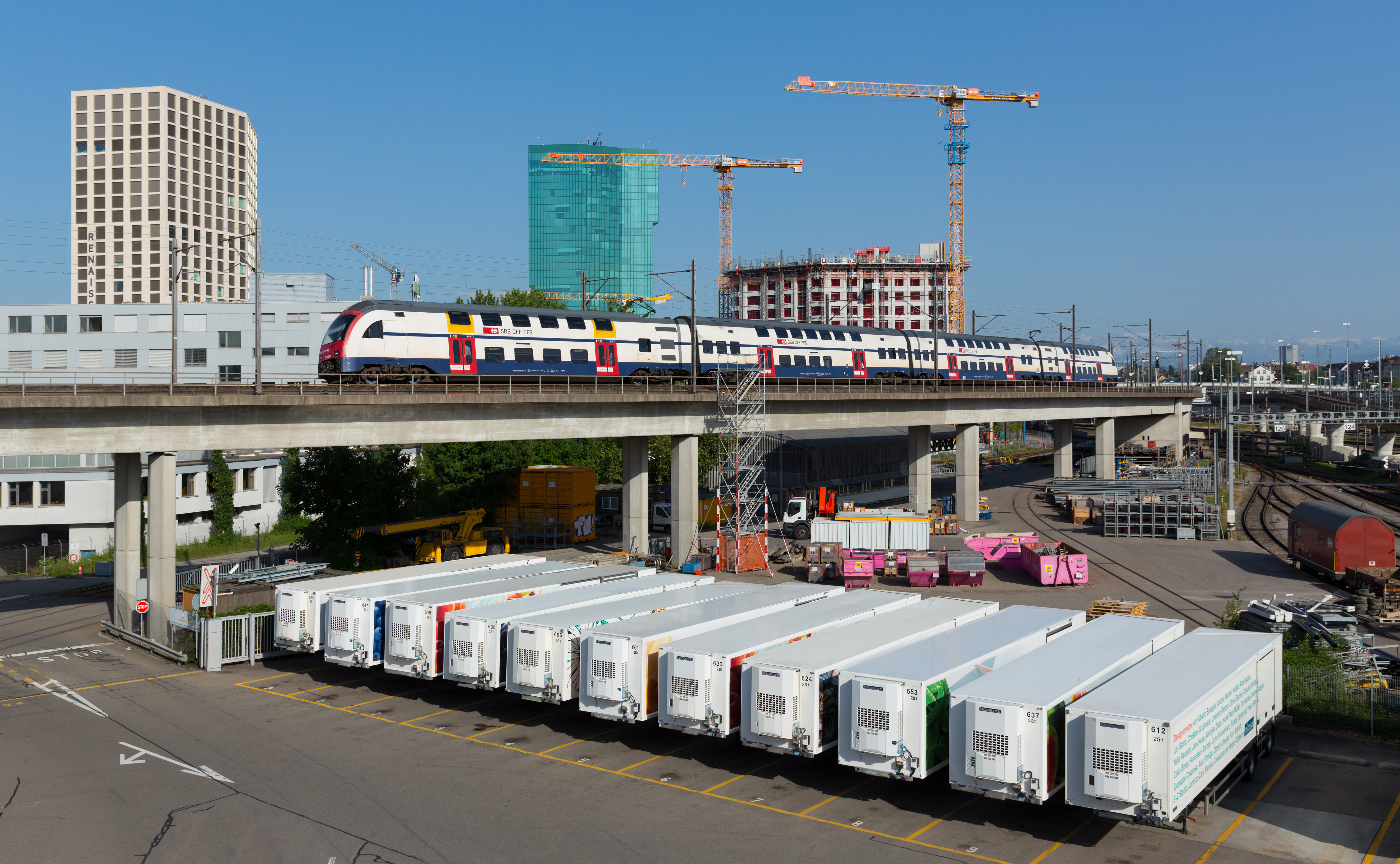 A Schweizerische Bundesbahnen class RABe 514 "DTZ" has just left Hardbrücke station and is now crossing the Hardturm viaduct towards Oerlikon, Switzerland.